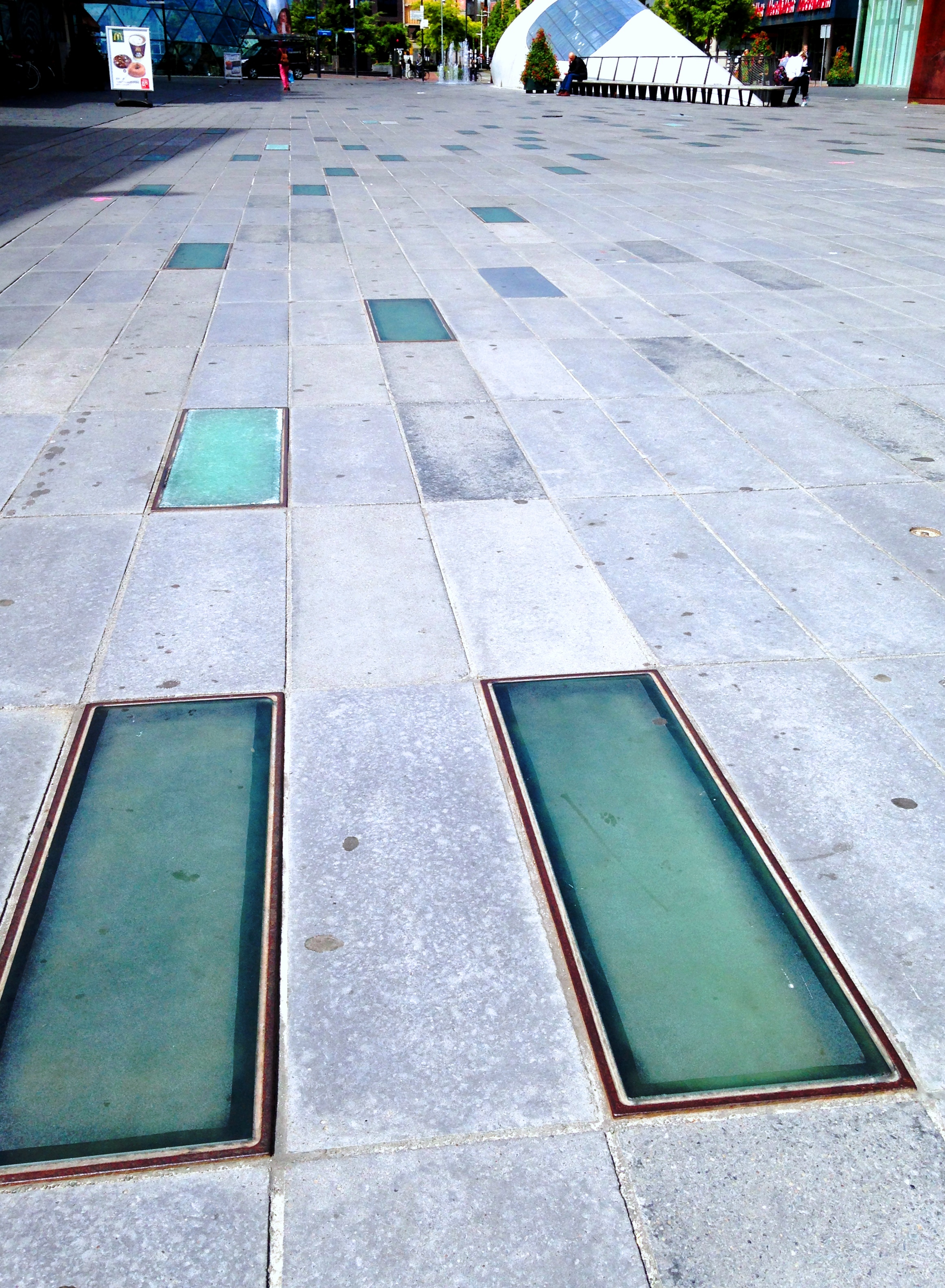 Blue tiles in 18 Septemberplein square, Eindhoven city centre. These tiles, which light up in the dark, were inserted to mark the former course of the Gender stream through the centre of Eindhoven.